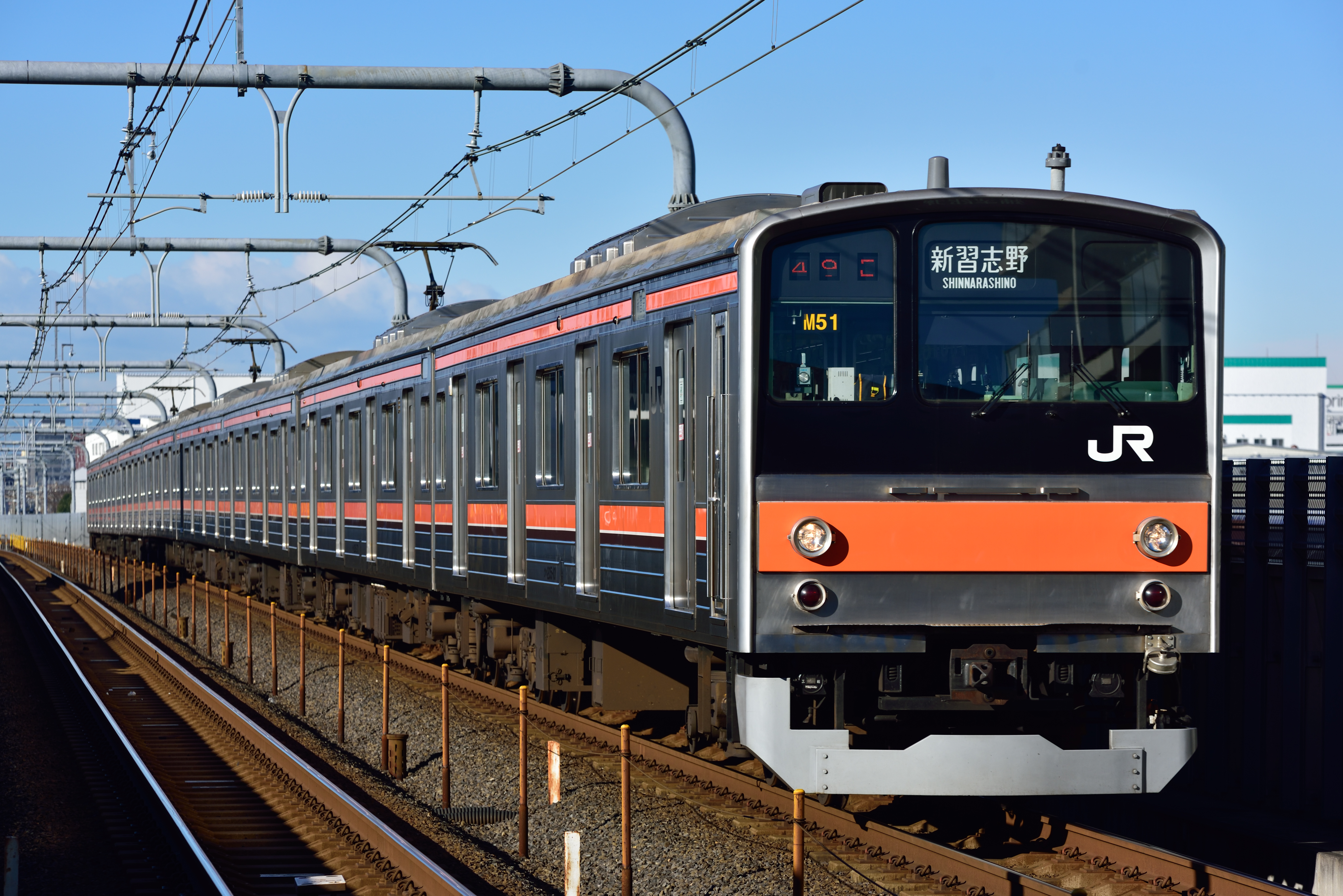 JR East 205 series EMU set M51 approaching Koshigaya Laketown Station on a Musashino Line service to Shin-Narashino